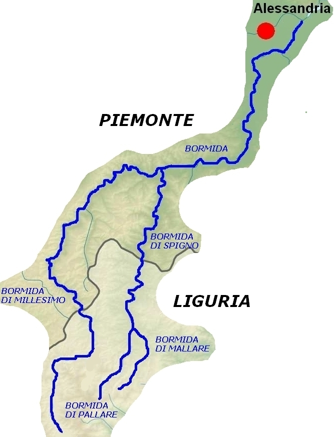 Names of the different branches of the river